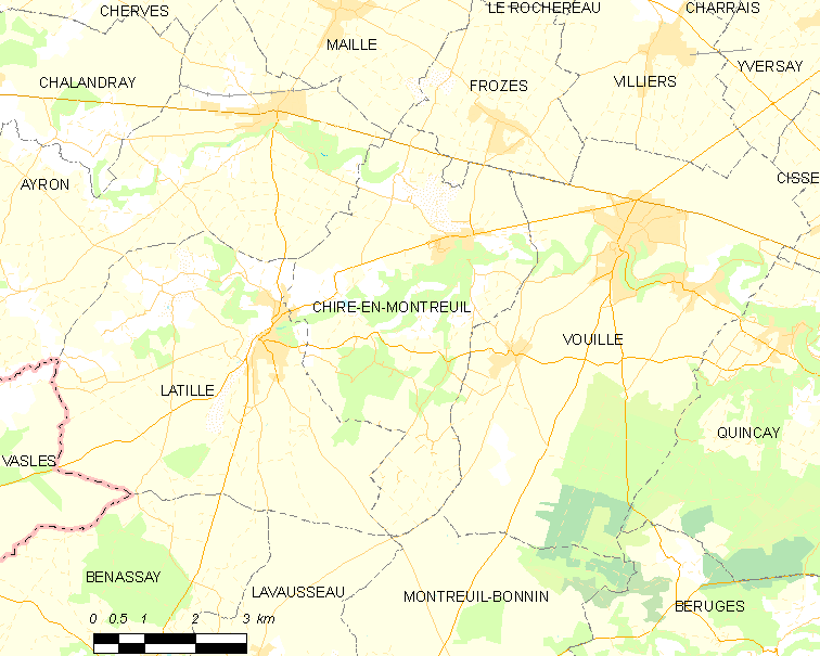 Map of French municipality Chiré-en-Montreuil